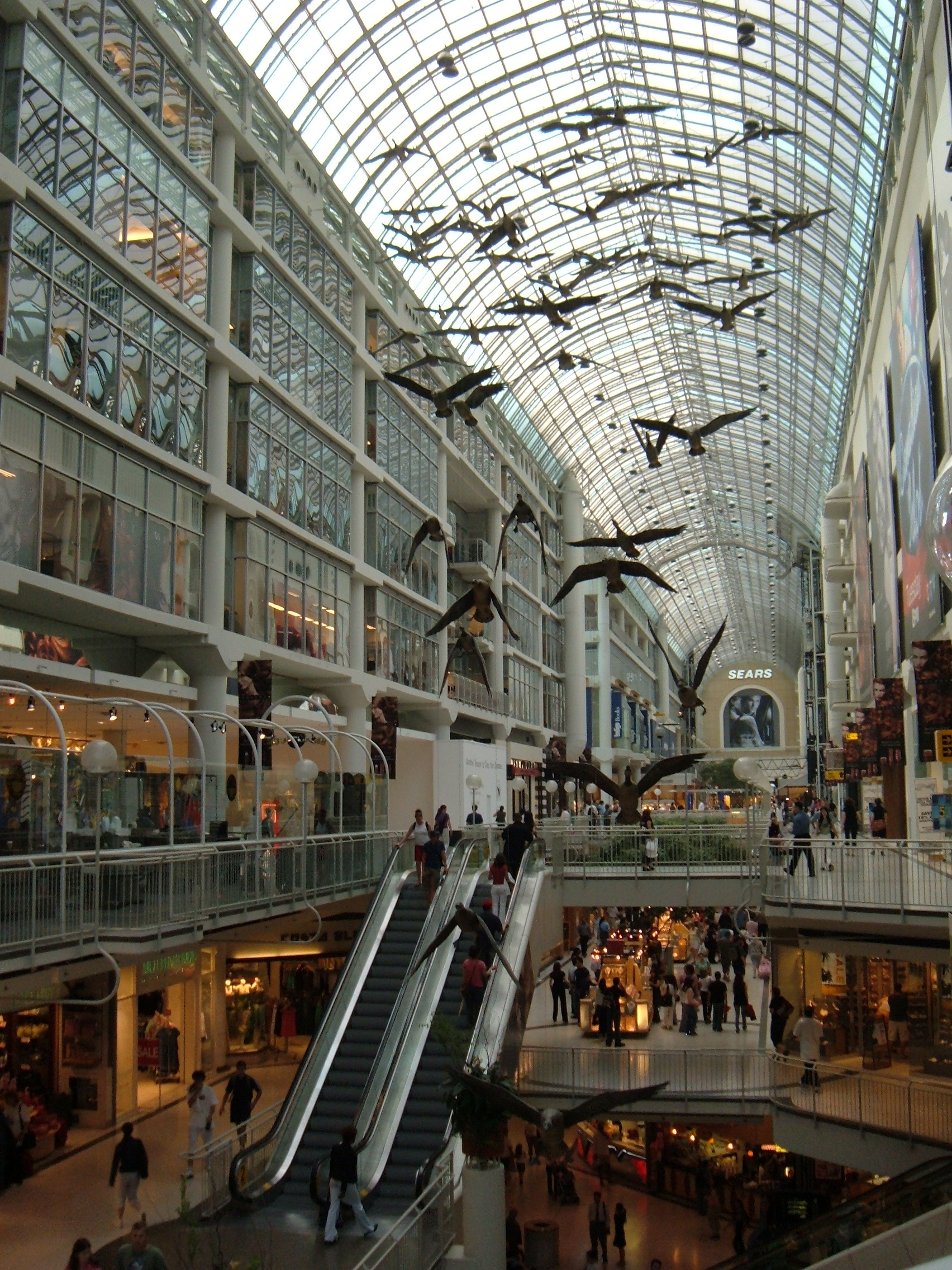 Toronto Eaton Centre, facing north. Photo taken by IYY.